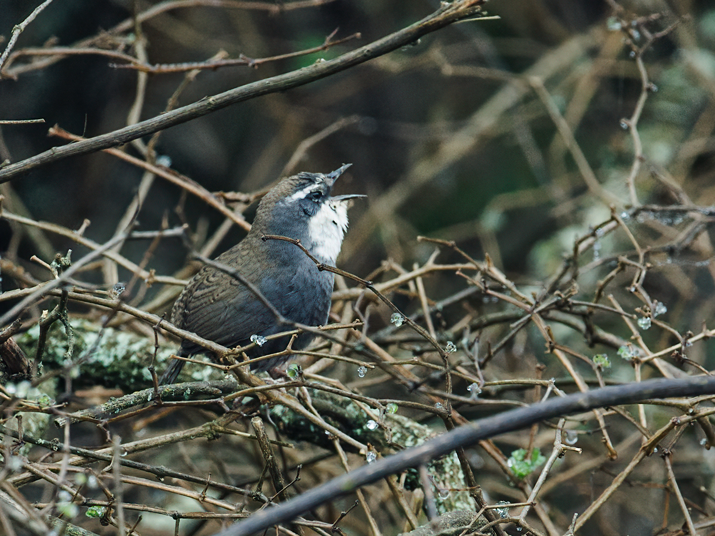 White-browed Tapaculo from Tafí del Valle, Tucumán, Argentina